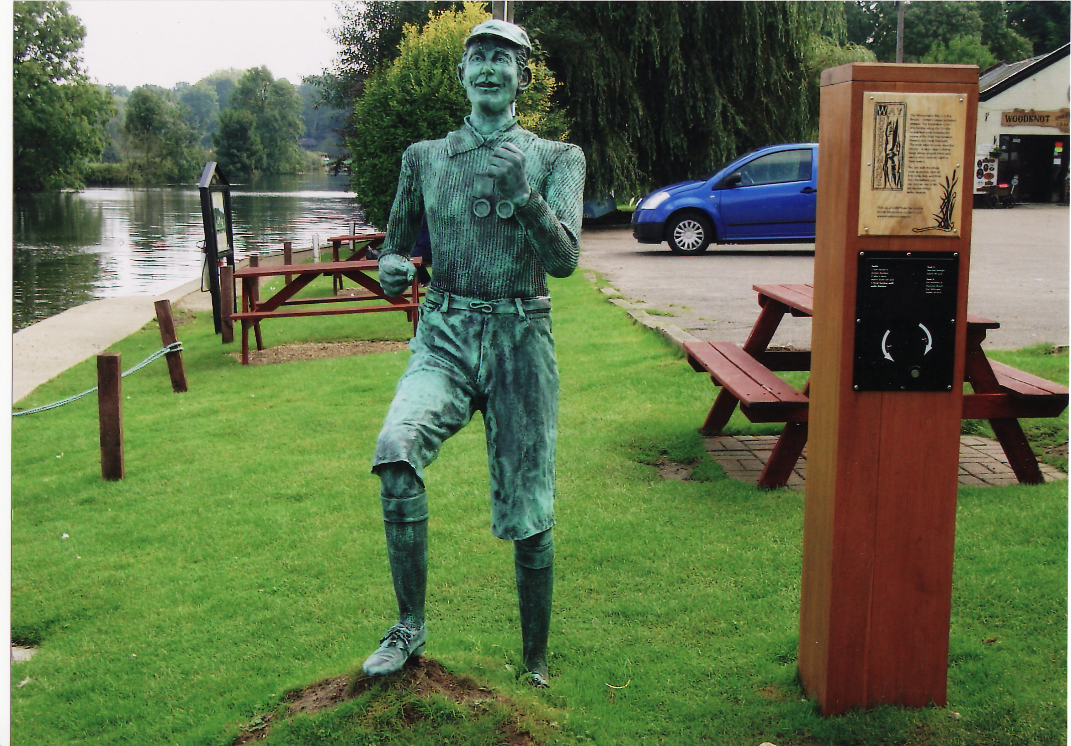 Picture of sculpture of Billy Bluelight at Woods End public house